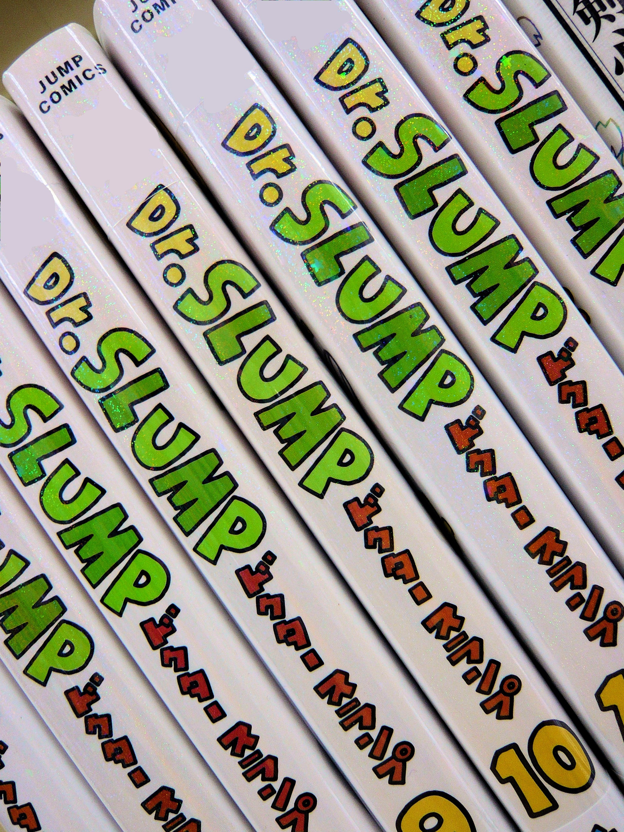 See where this picture was taken. [?]